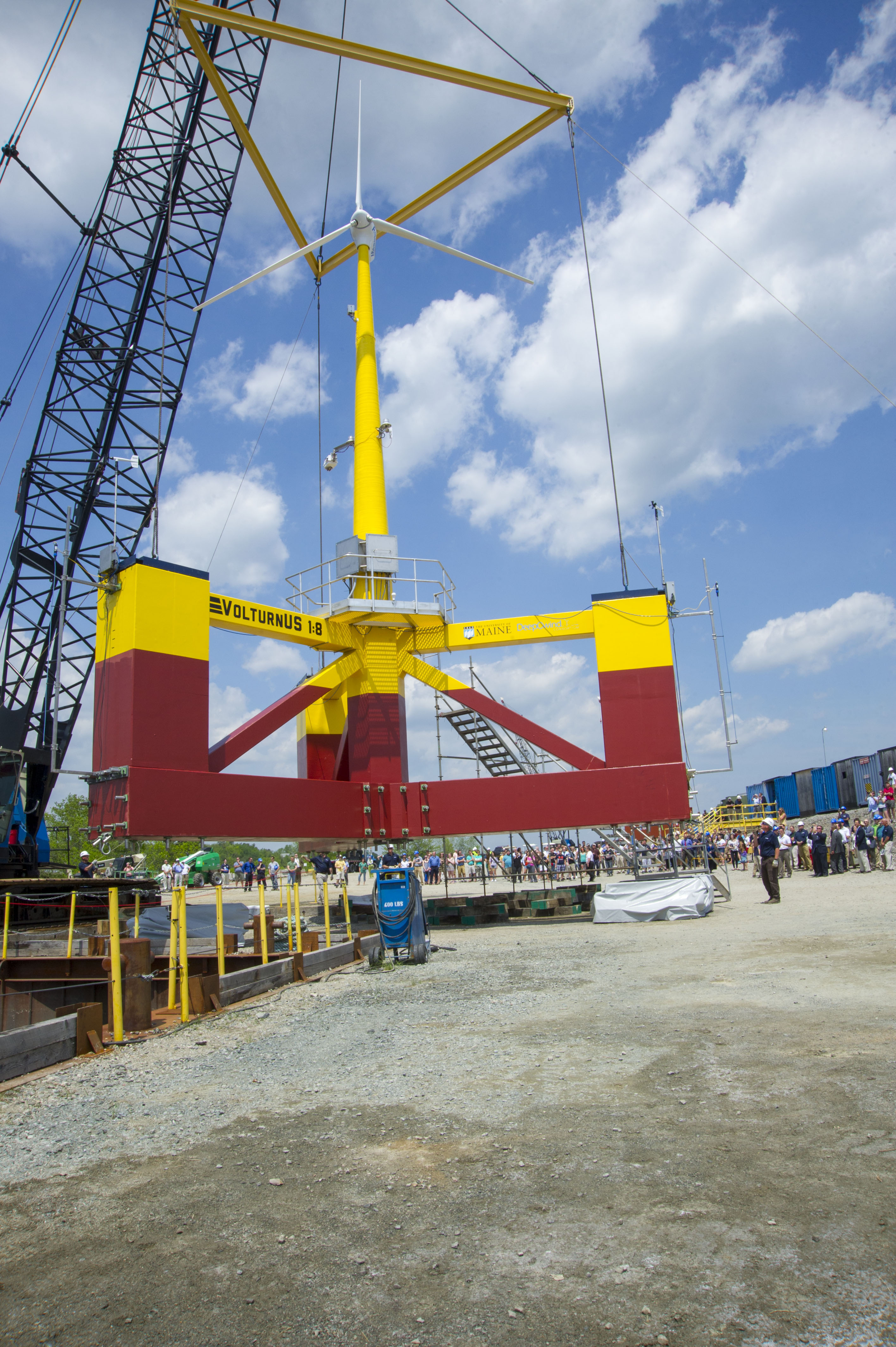 The University of Maine-developed VolturnUS 1:8 is a 65-foot-tall floating turbine prototype that is 1:8th the scale of a 6-megawatt (MW), 450-foot rotor diameter design. The VolturnUS 1:8 was launched into the Penobscot River in Brewer, ME, where it was towed and anchored in Castine, ME for 18 months in 90 feet of water. On June 13, 2013, the turbine was energized and began delivering electricity through an undersea cable to the Central Maine Power electricity grid, making VolturnUS 1:8 the first grid-connected offshore wind turbine in the Americas